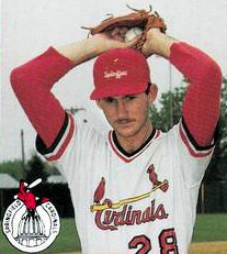 Professional baseball player Jeremy Hernandez